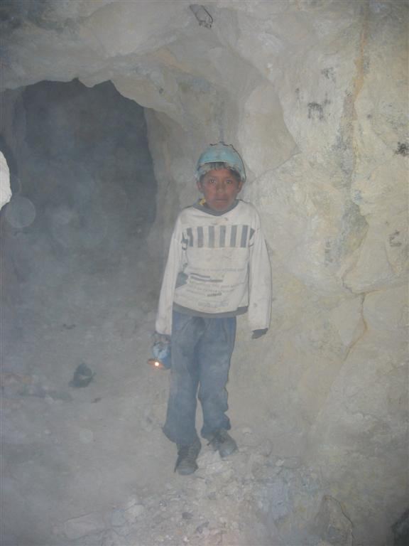 Child labor in Potosi silver mines.Nine years old boy.2004, Potosi